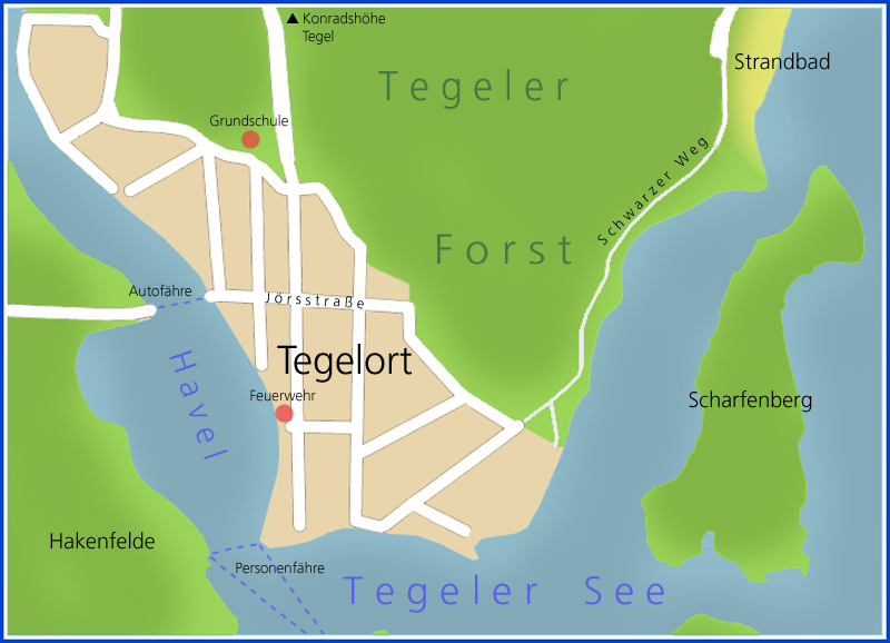 Overview Map of Tegelort